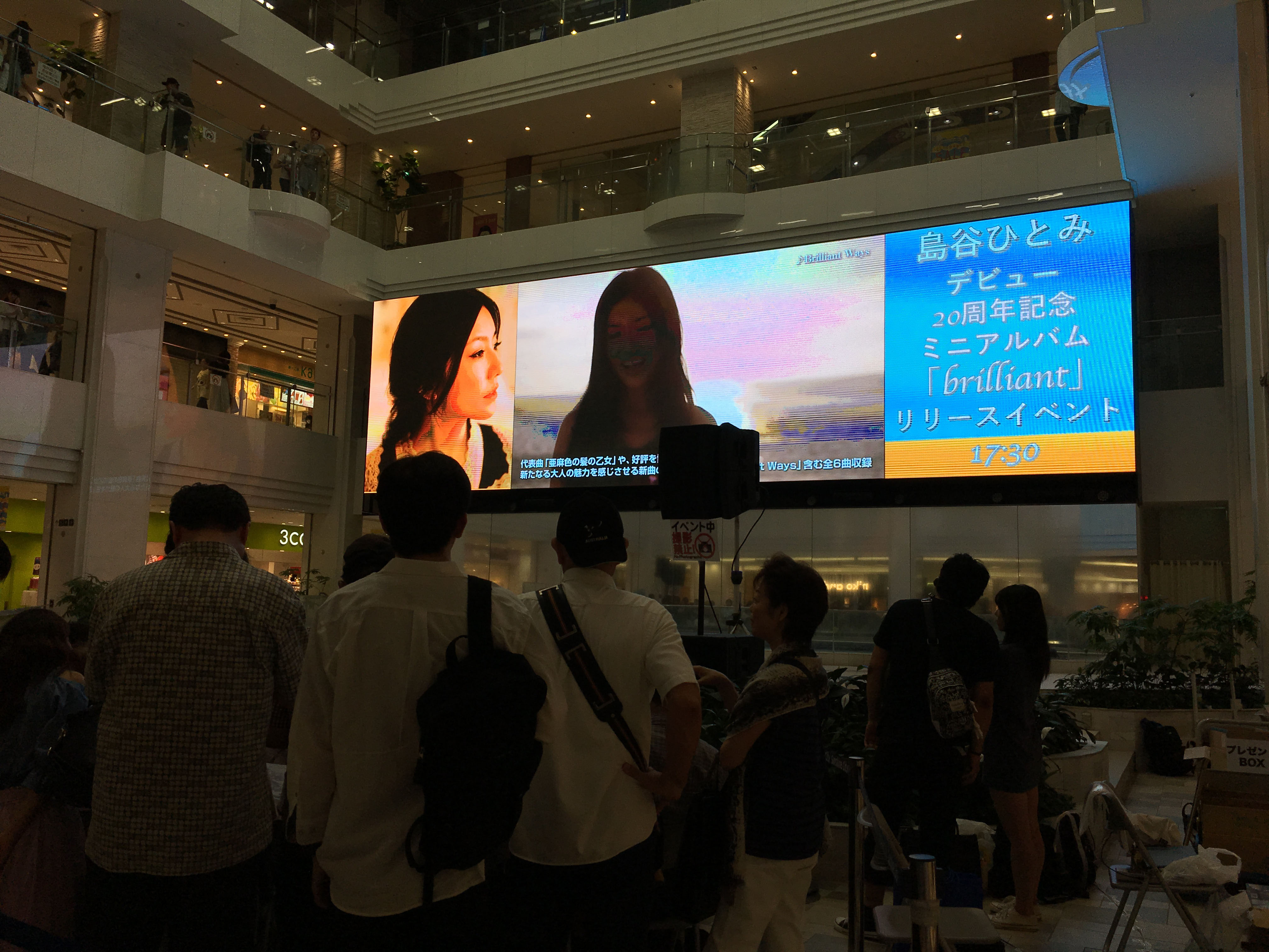 Event for the music album "brilliant" of Hitomi Shimatani, held at Sunshine City Alpa (Shopping mall in Tokyo, Japan)